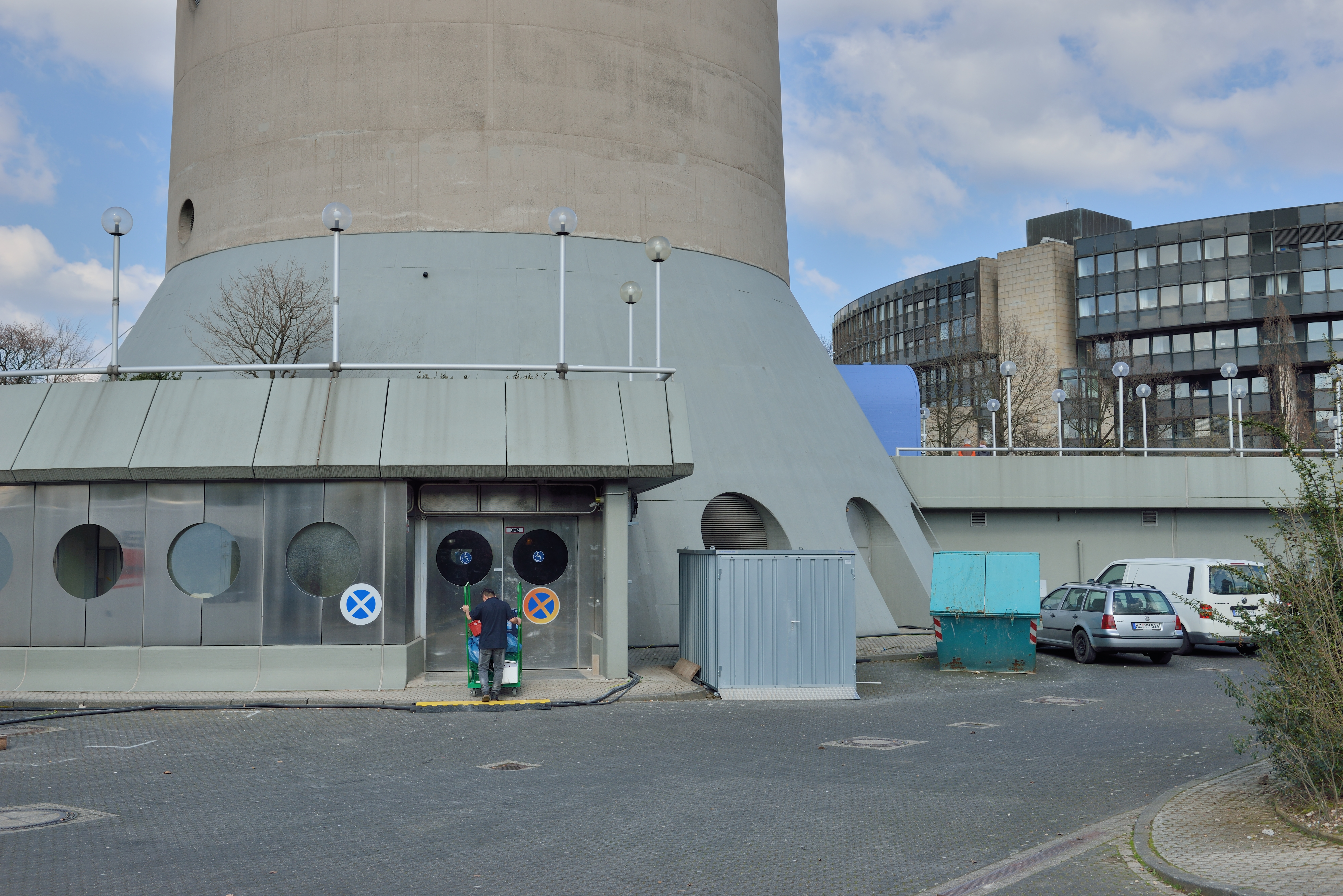 Düsseldorf: Rheinturm